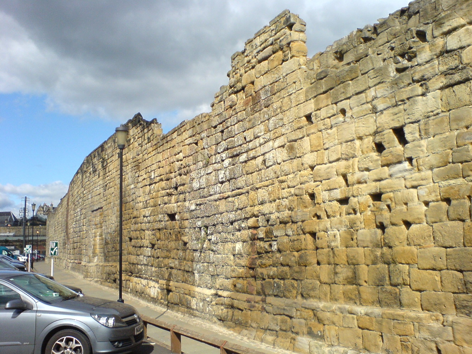 The Newcastle town wall at Orchard Street, April 2007.